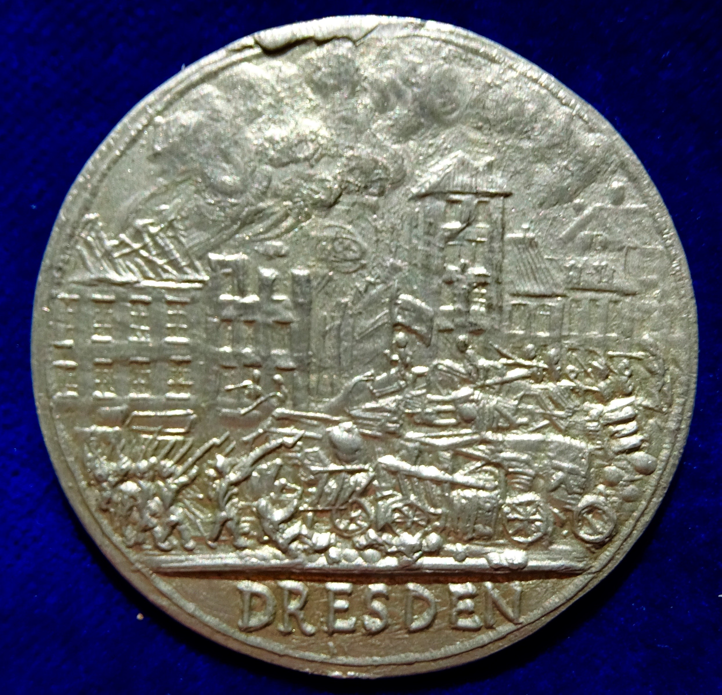 Lead, d=44 mm. 17.42 g. Very rare. The May Uprising took place in Dresden, Kingdom of Saxony in 1849; it was one of the last of the series of events known as the Revolutions of 1848. Samuel Erdmann Tzschirner, 1812 Bautzen - 1870 Leipzig and Otto Leonhard Heubner, 1812 Plauen - 1893 Dresden-Blasewitz and Carl Gotthelf Todt, 1893 Auerbach, Vogtland - 1952 Riesbach near Zürich. Fighting scene with revolutionary barricades in Dresden. In exergue: "DRESDEN". / A shield with 3 names of the leaders of the revolution "TSCHIRNER HEUBNER TODT" dividing the dates "4-9 MAY 1849". 3 lines below: "PROVISORISCHE REGIERUNG SACHSENS". Slg Vogel 7573; Slg Krug 1500. Condition: UNCIRCULATED.